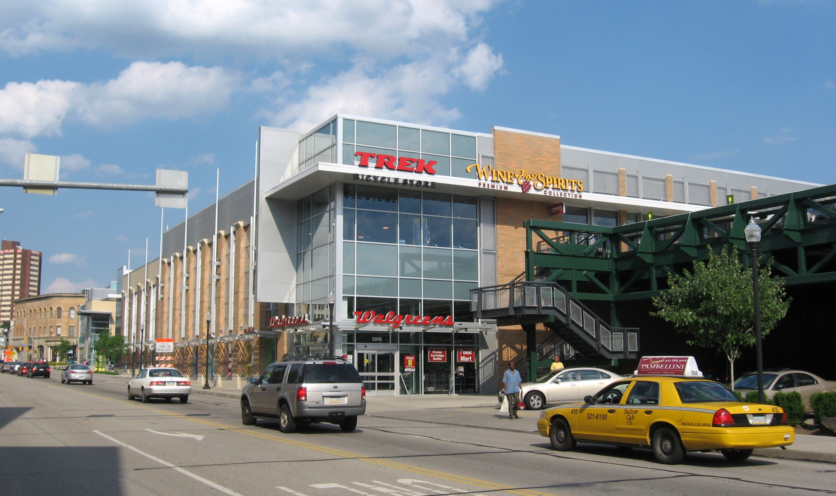 Shopping development in East Liberty, Pittsburgh40°27′33.4″N 79°55′35.9″W / 40.459278°N 79.926639°W